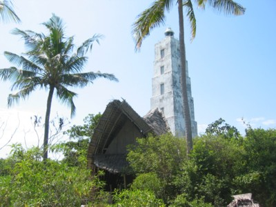 Author - Myself (skeptic_cdn), taken on Chumbe Island in August 2006.